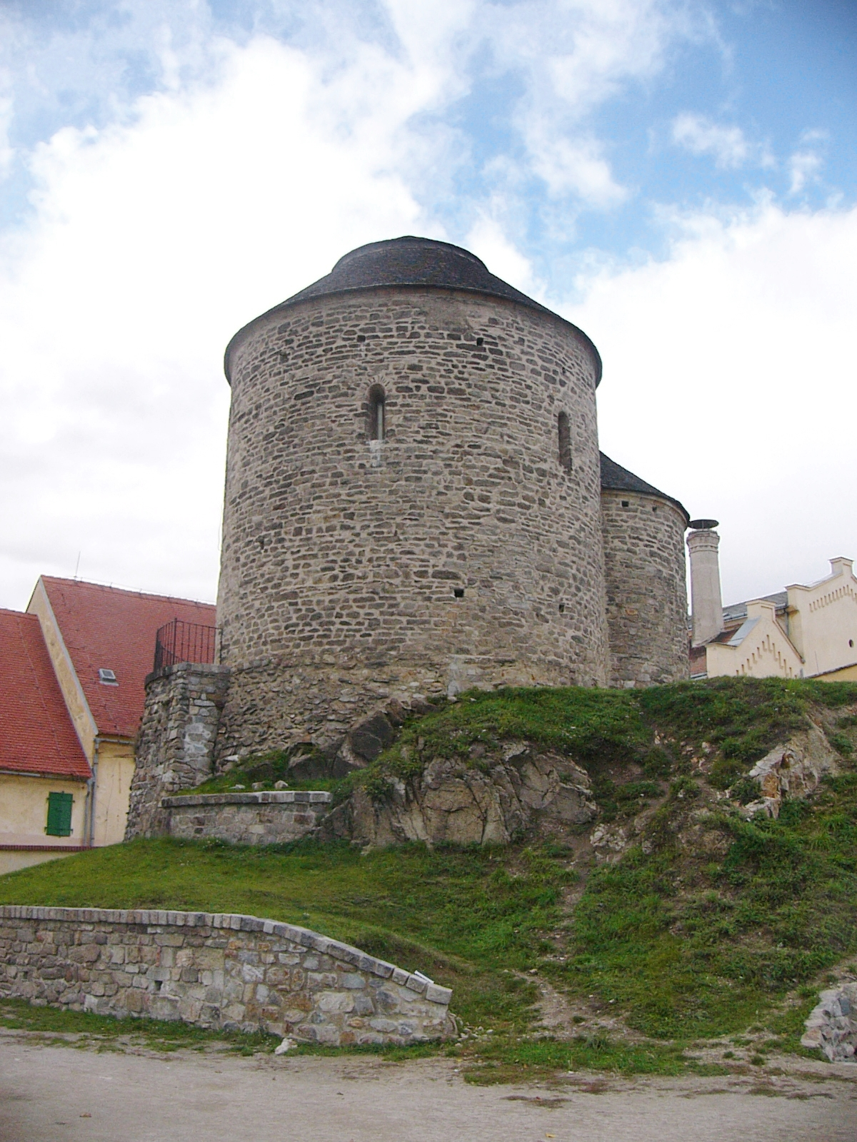 Znojmo, The Rotunda of Saint Katharina